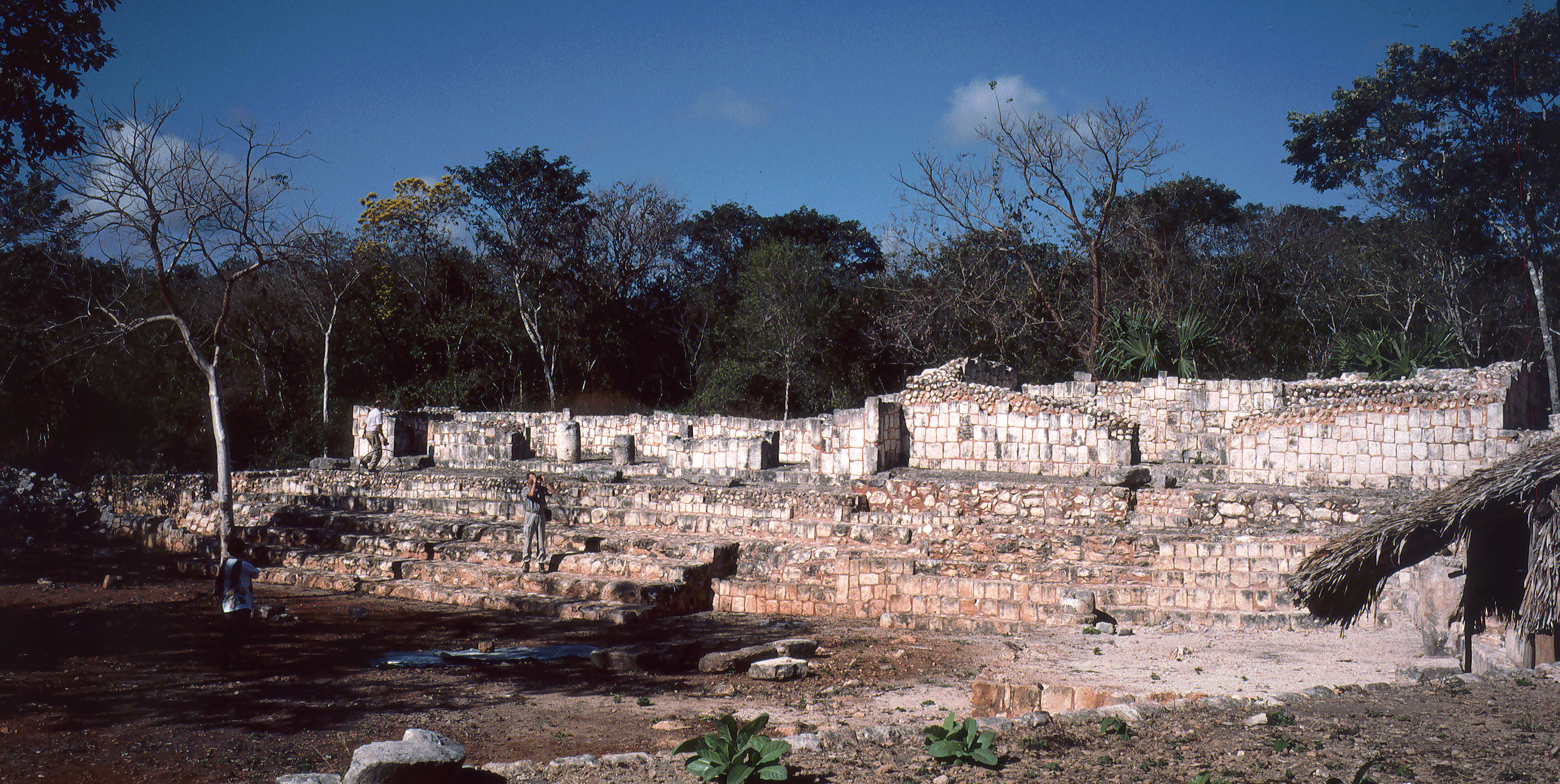 Chac II, Yucatan, Mexico: building at westerns side of coutyard south of pyramid.